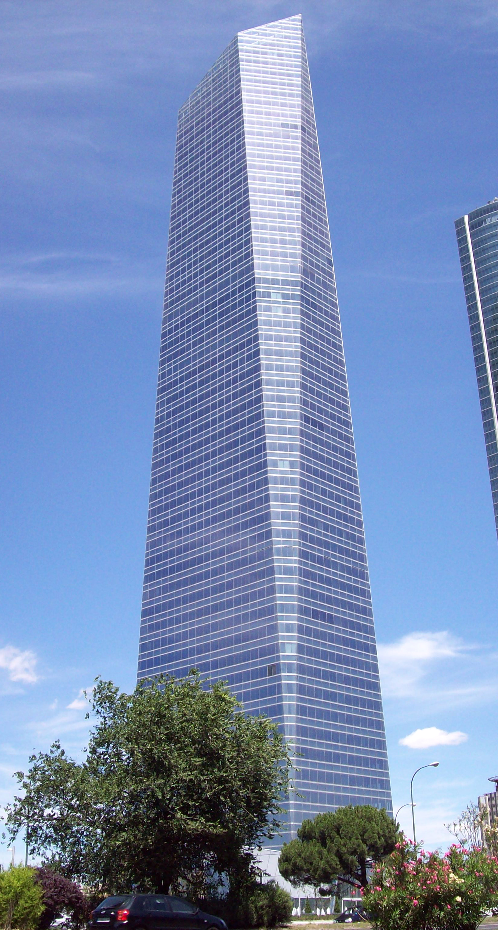 View of Torre de Cristal ("Crystal Tower") in Cuatro Torres Business Area (Madrid, Spain) from the south-east angle. Image taken from Paseo de la Castellana (avenue).